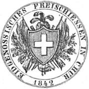 Line Drawing of 1842 shooting thaler of Graubünden (KM# 17)